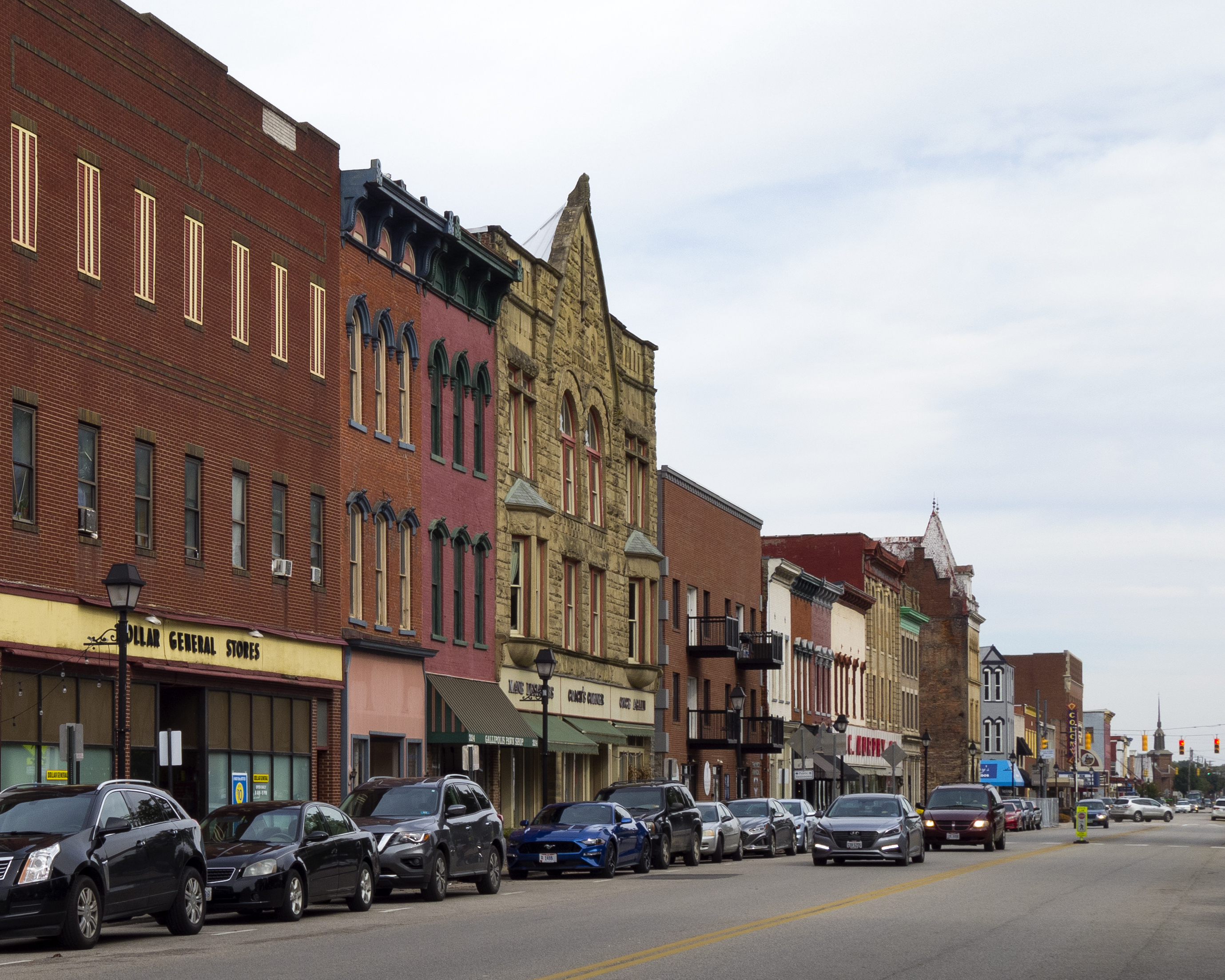 A view of the downtown storefronts